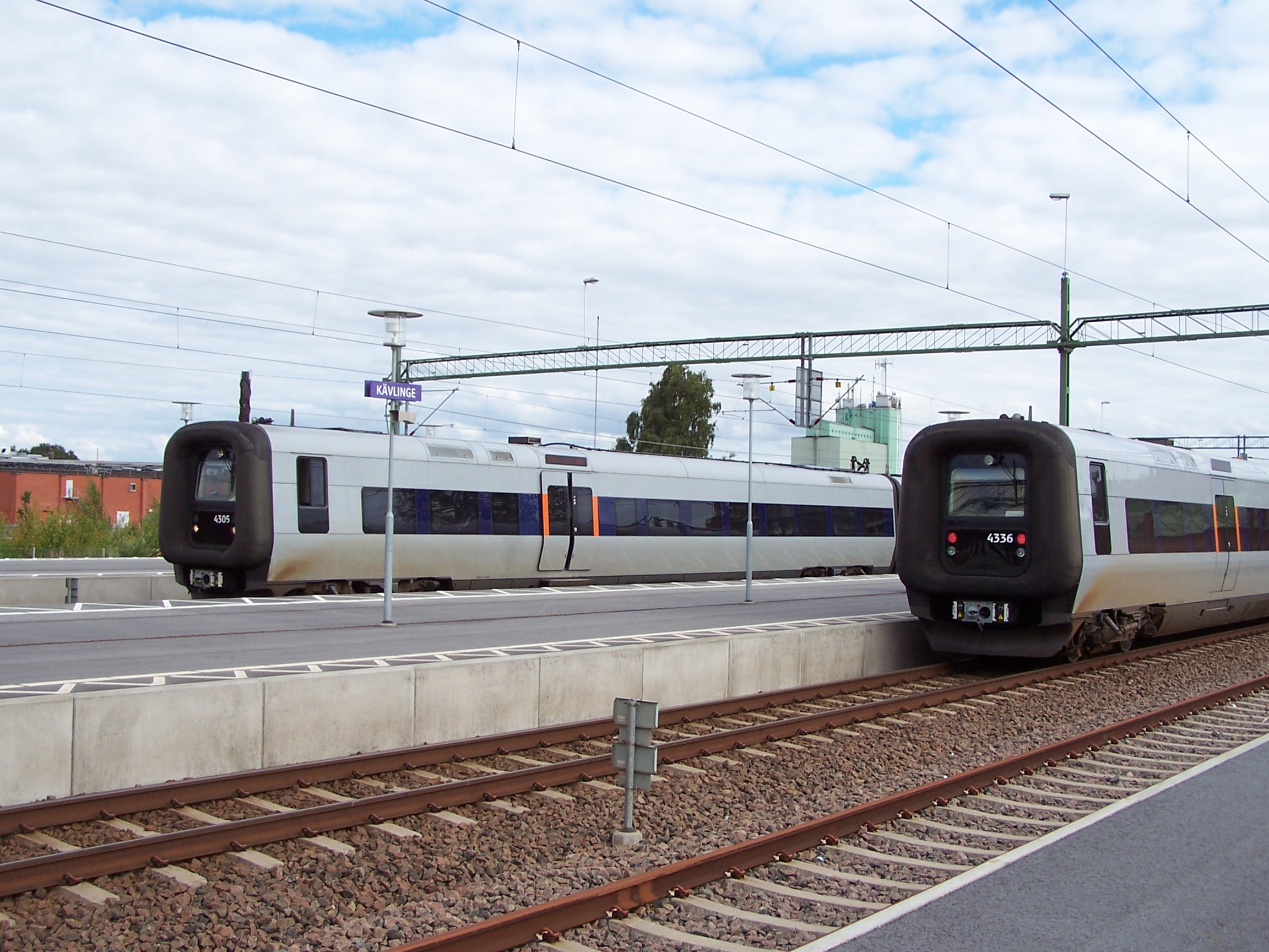 Two Öresundståg at Kävlinge railway station. 4305 owner: DSB, 4336 owner: SJ.